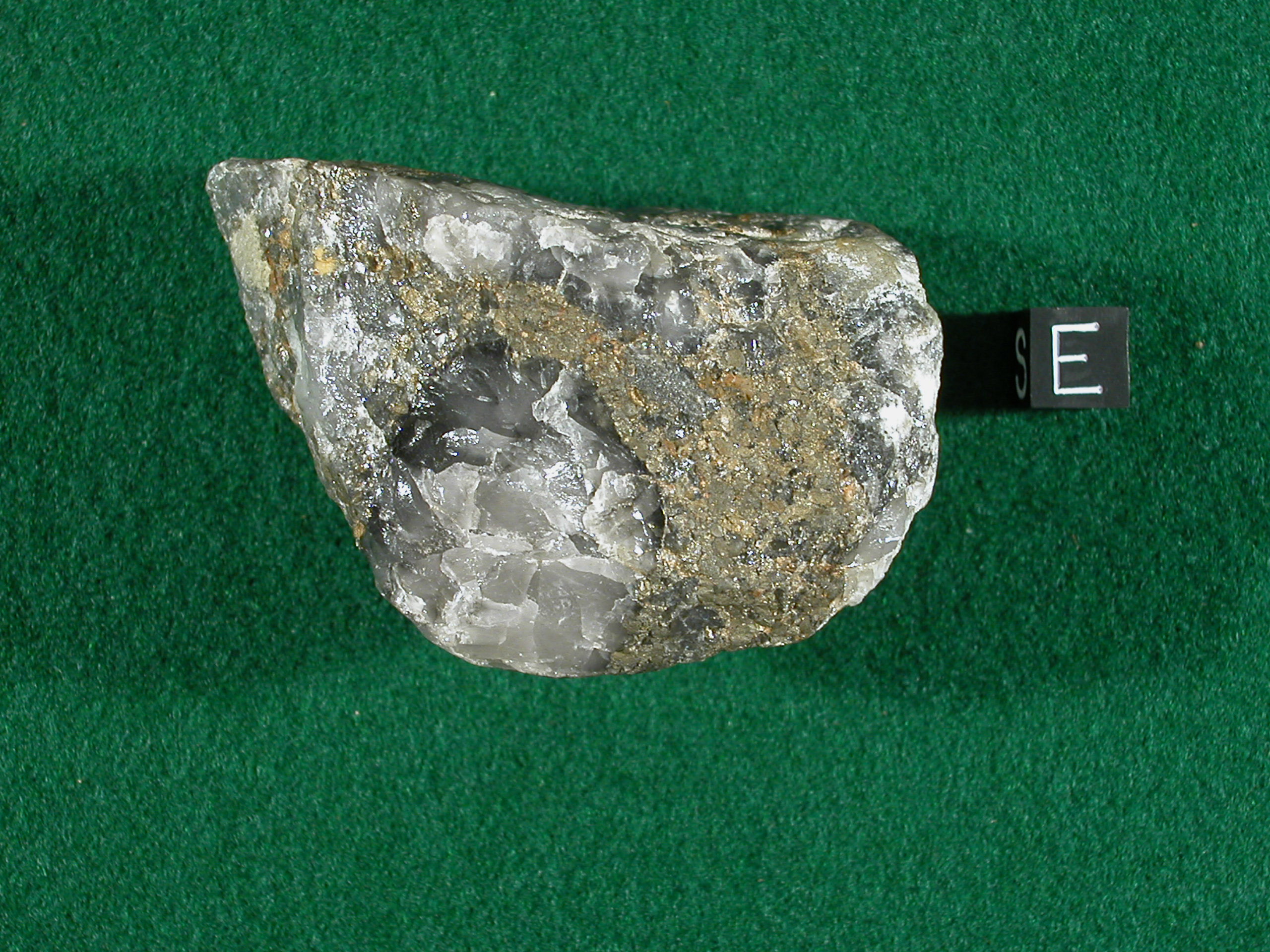 Gold ore from the President Steyn Gold Mine, Welkom, South Africa. The sample shows quartz cobbles and sand and granule-size grains of detrital pyrite. Scalecube is 1 centimeter square.